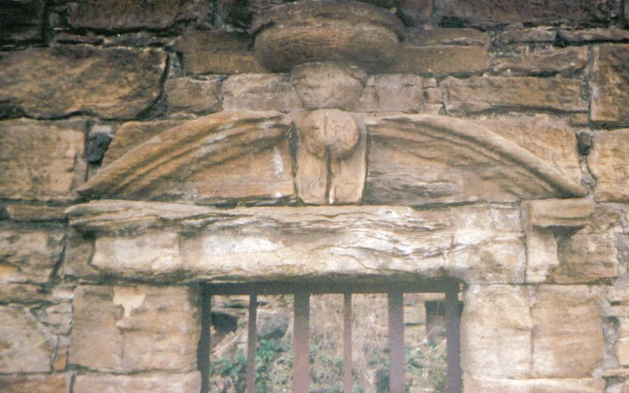 The entrance at Clonbeith Castle near Kilwinning in North Ayrshire. The date carved appears to be 1617.